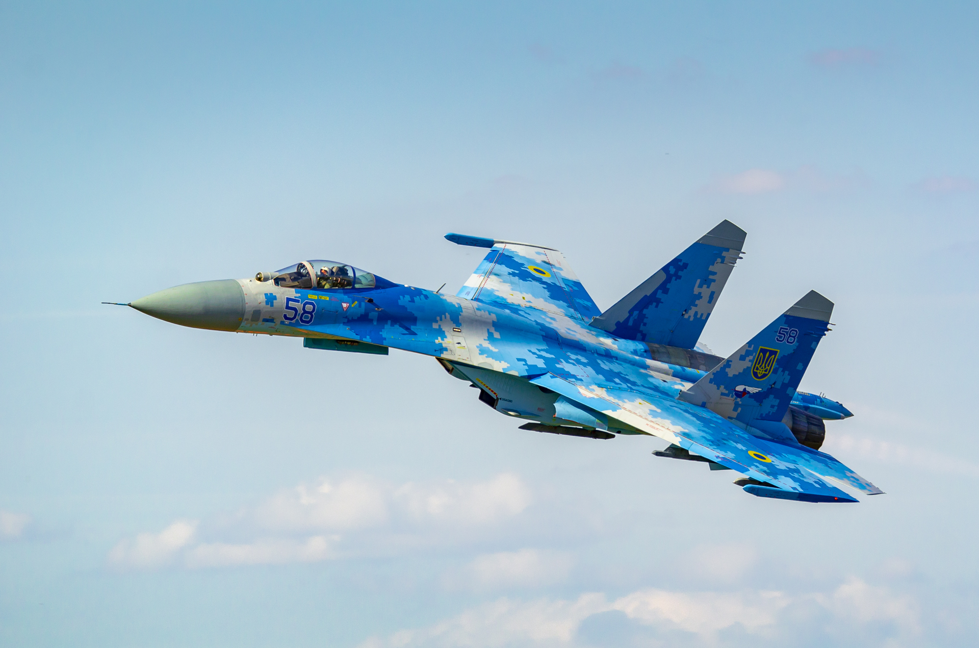 Royal International Air Tattoo 2018, RAF Fairford, Gloucestershire